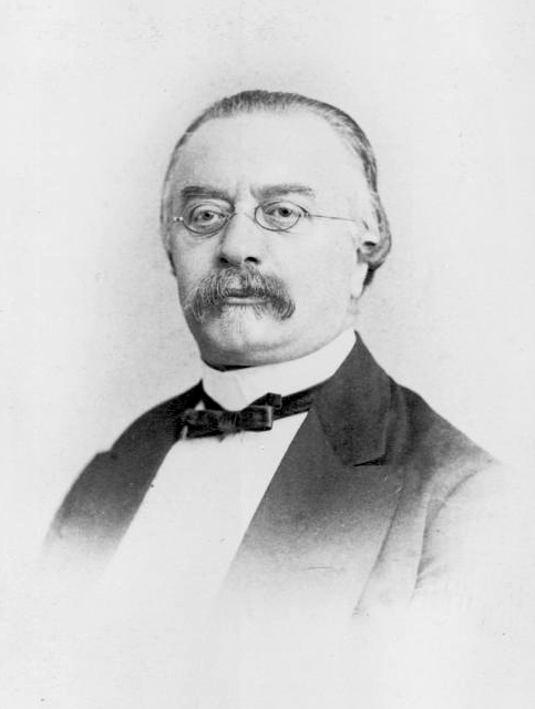 German composer and educator Julius Stern (1820—1883)